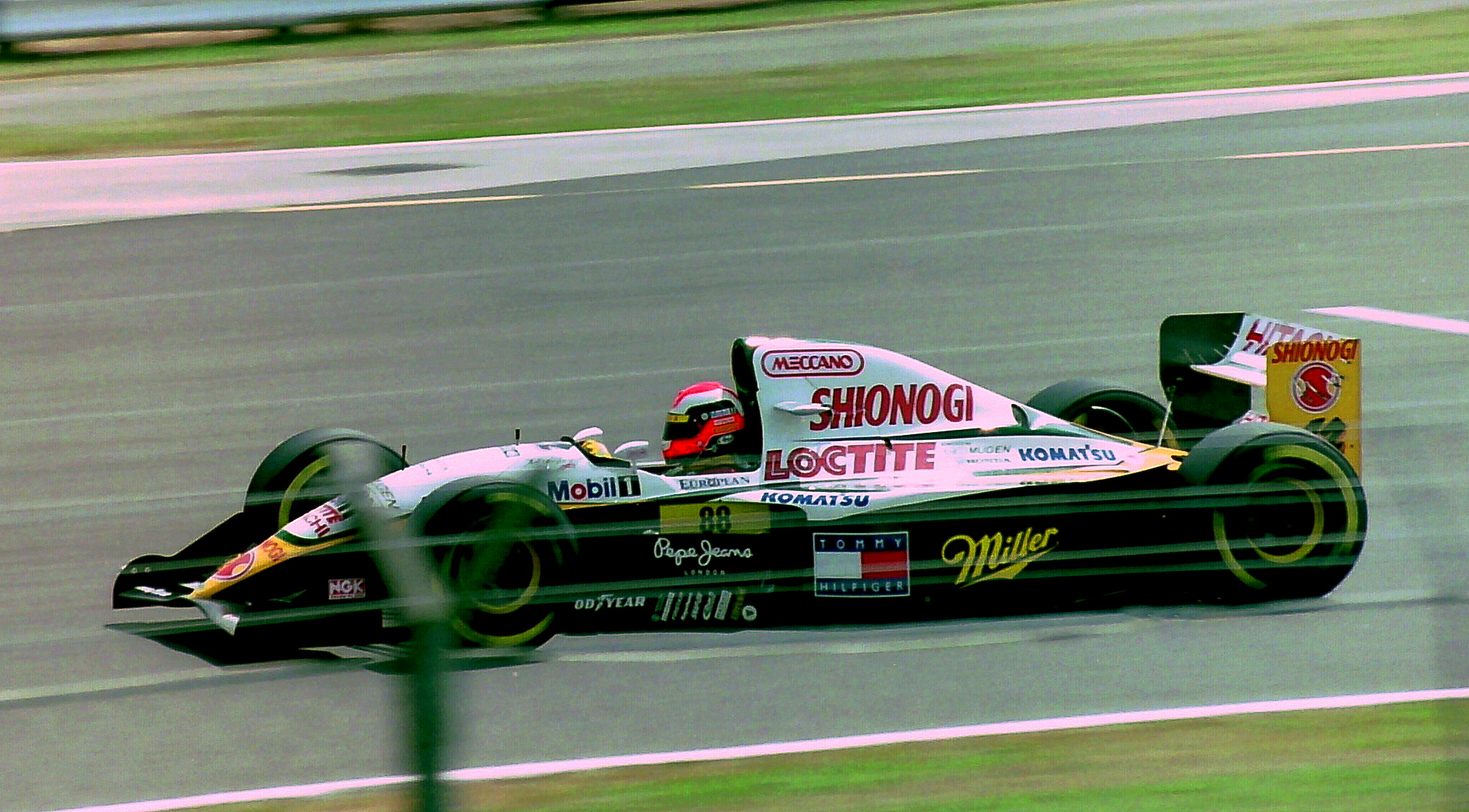 Johnny Herbert - Lotus 109 at the 1994 British Grand Prix